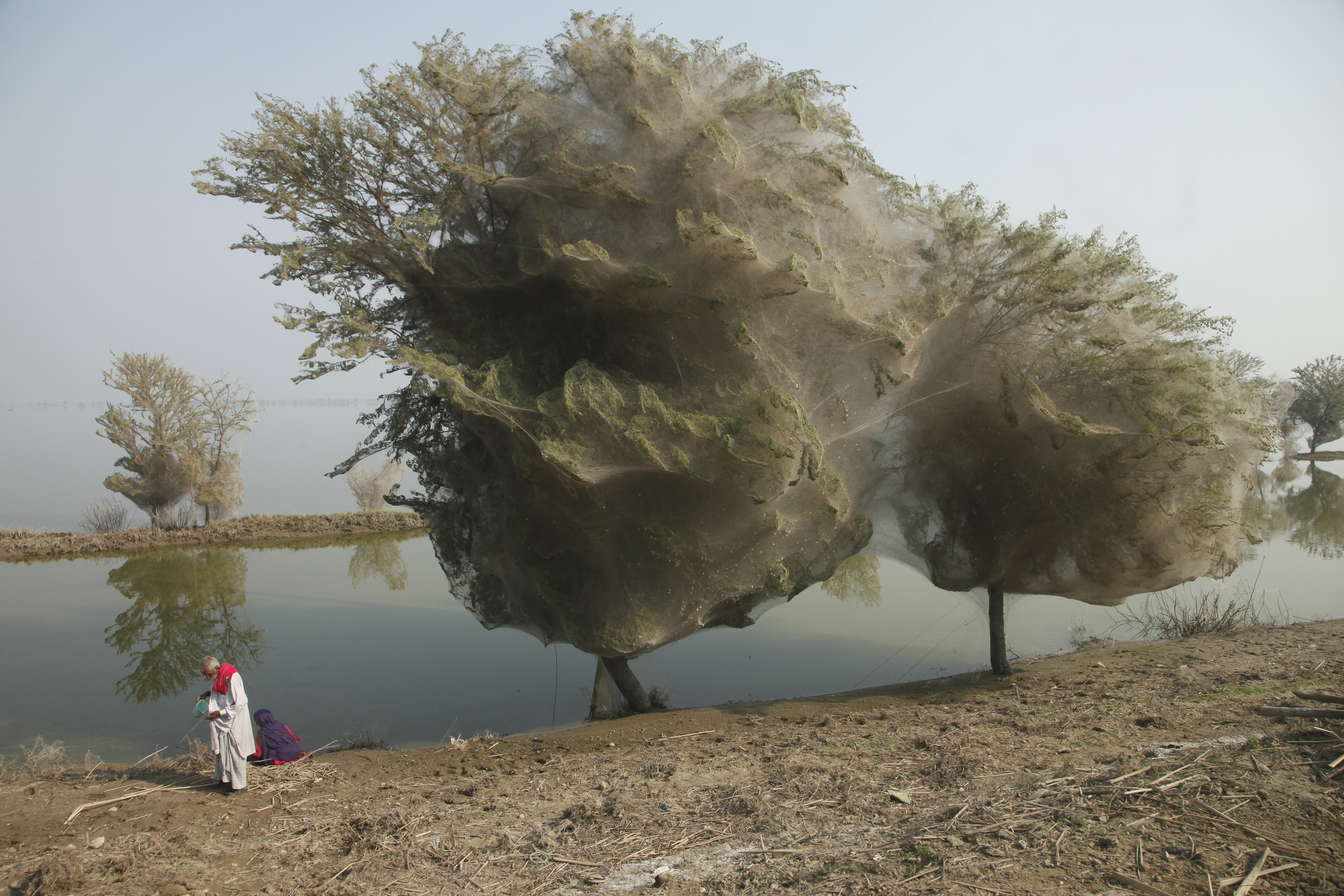 Trees cocooned in spiders webs, an unexpected side effect of the flooding in Sindh, Pakistan